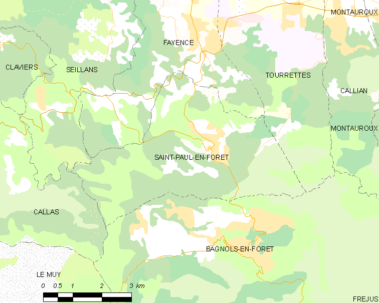 Map of French municipality Saint-Paul-en-Forêt